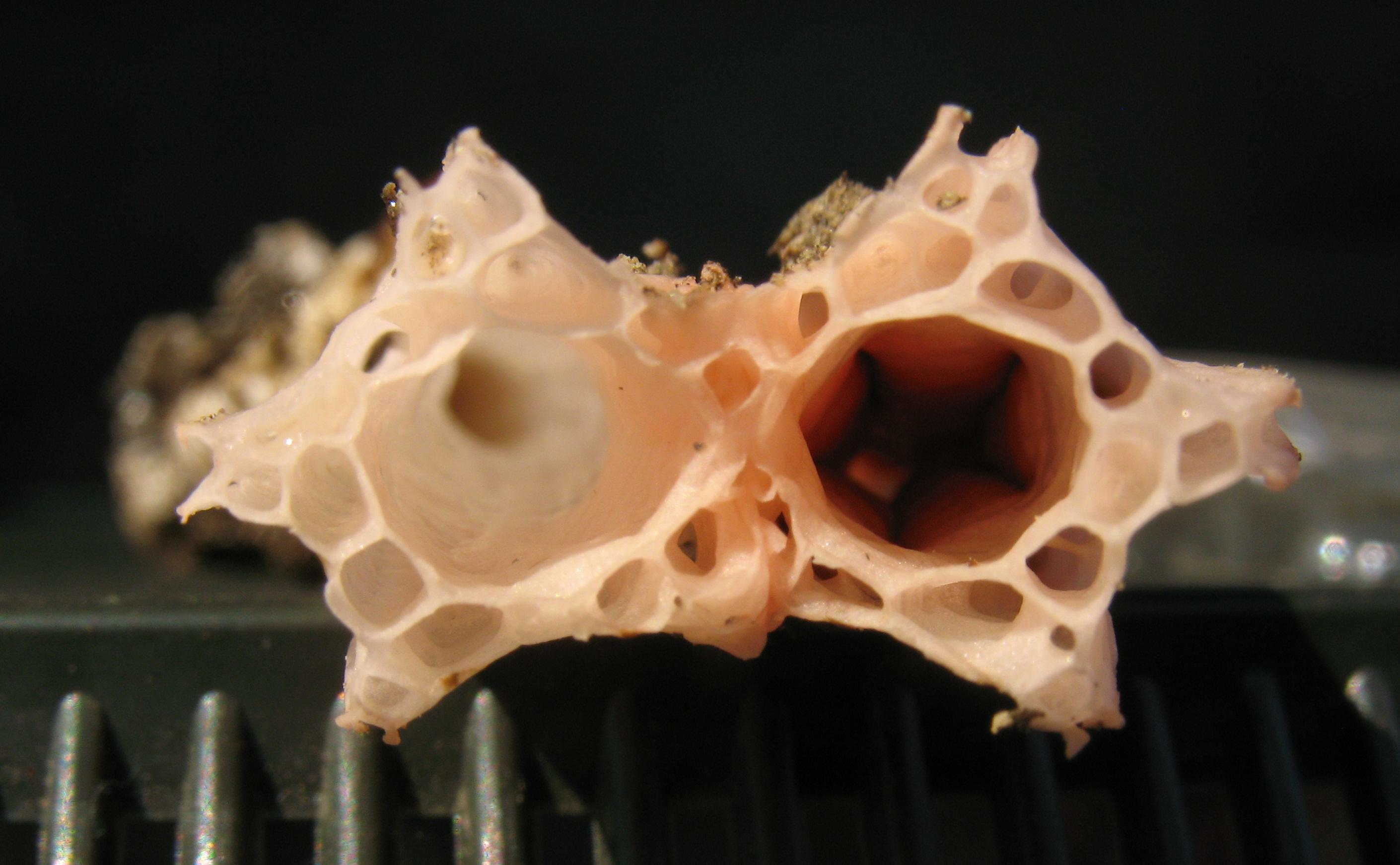 The lantern stinkhorn Lysurus mokusin (Cibot: Pers.) Fries "cross-sectioned" by break the stipe. Specimen found in Burbank, Los Angeles Co., California, USA